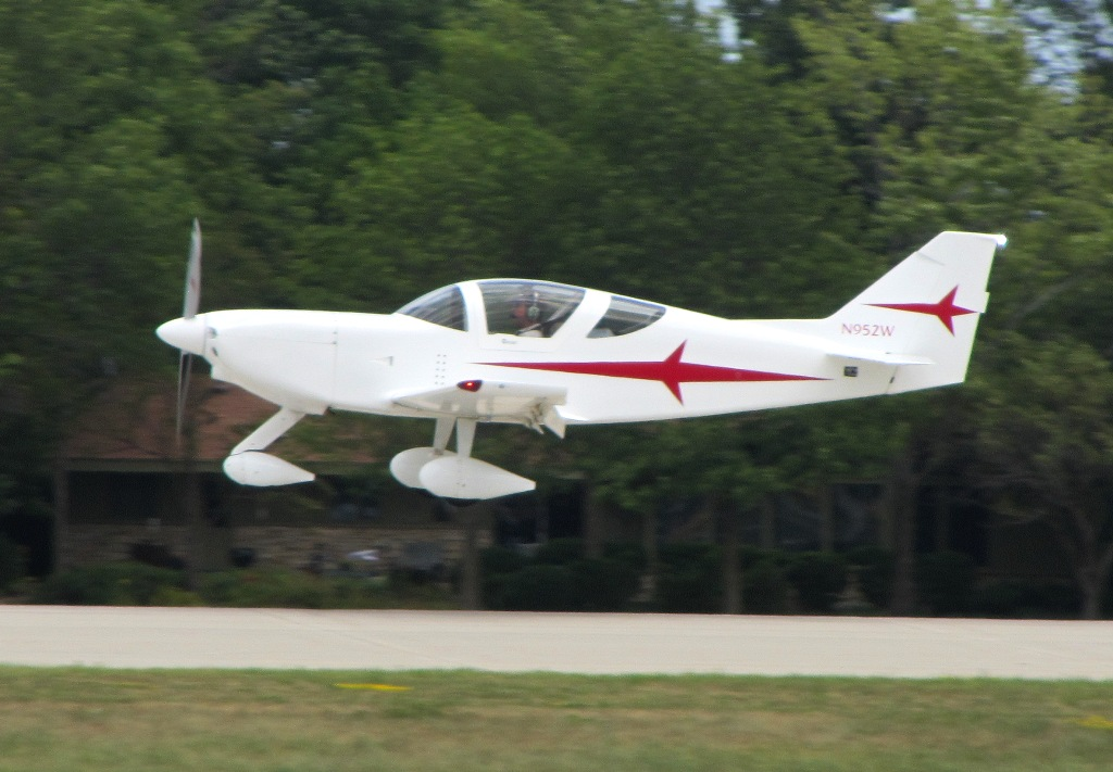 Glassair II Landing